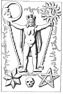 Depiction of naked female figure with headdress, surrounded by sun, moon, pentagram, eight-pointed star, skull, and Arabic or pseudo-Arabic inscription. The Baphometic idol was usually described as "a bearded head with a fierce expression." Von Hammer-Pürgstall (Mysterium Baphometis Revelatum, 1816) associated a series of carved or engraved figures found on a number of 13th century Templar artifacts (such as cups, bowls and coffers) with the Baphometic idol. Note: Von Hammer-Pürgstall has been accused of fakery.